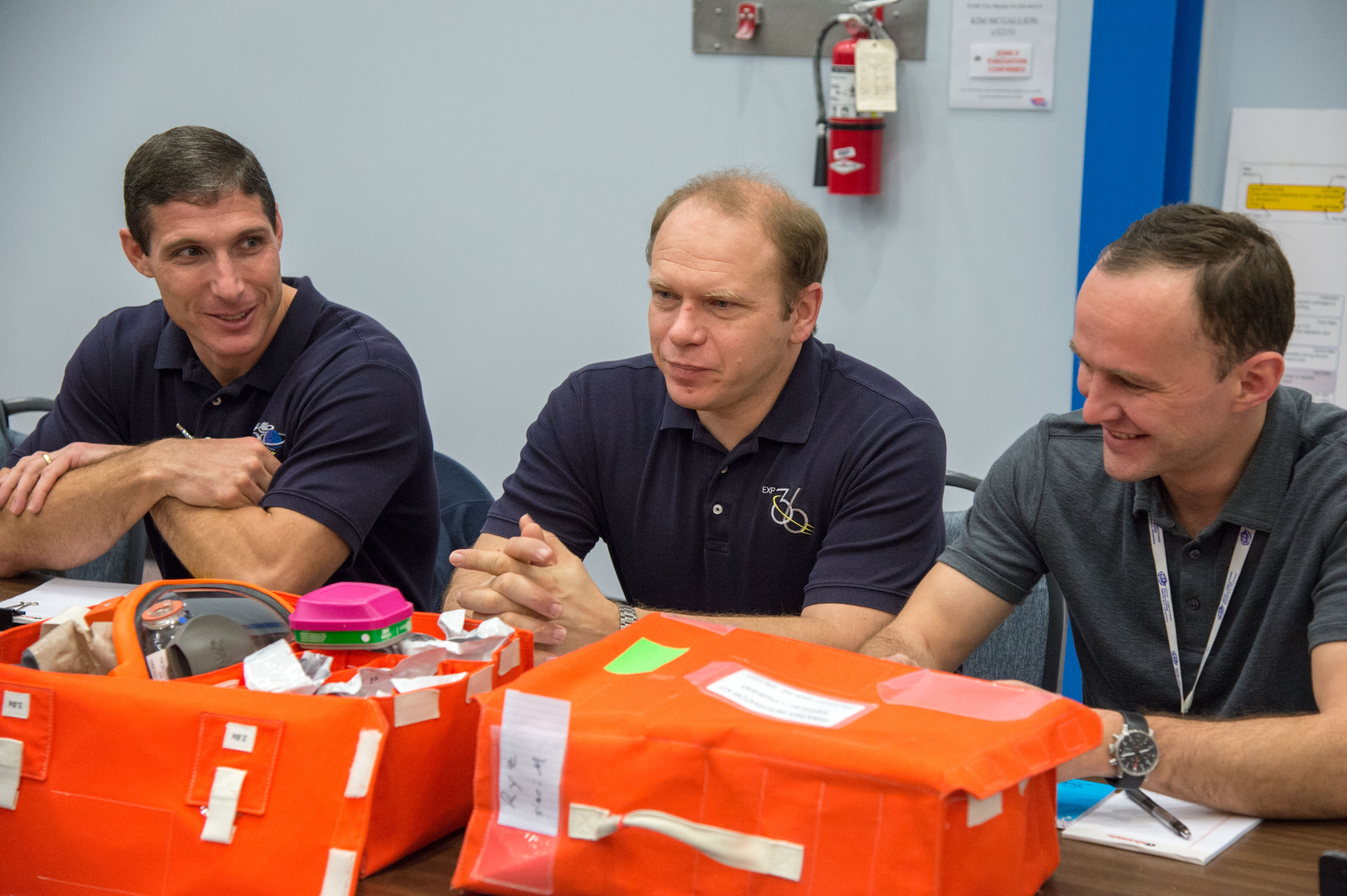 Russian cosmonaut Oleg Kotov (center), Expedition 37 flight engineer and Expedition 38 commander; along with NASA astronaut Michael Hopkins (left) and Russian cosmonaut Sergey Ryzansky, both Expedition 37/38 flight engineers, participate in an emergency scenario training session in the Space Vehicle Mock-up Facility at NASA's Johnson Space Center.